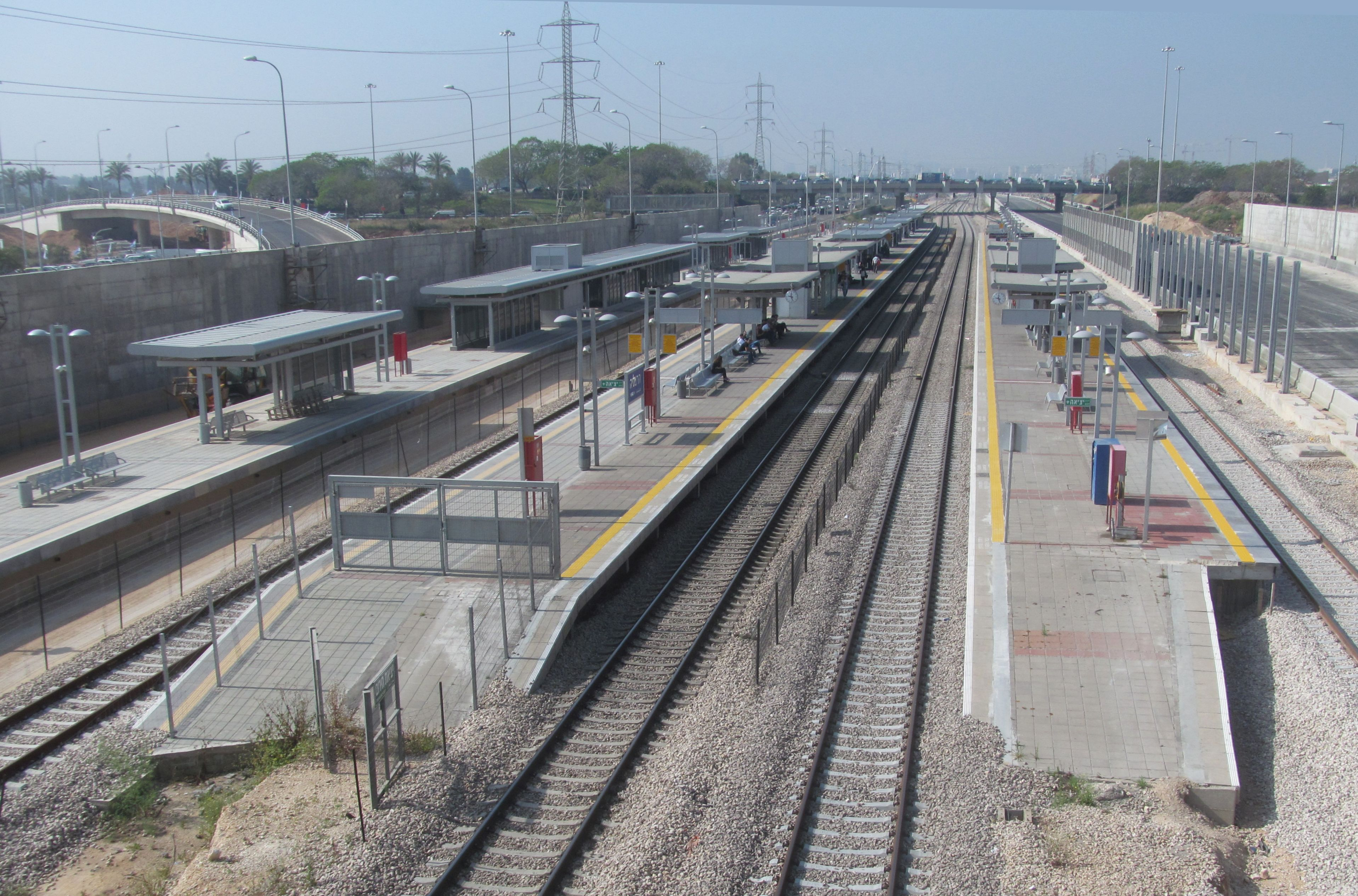 Herzliya railway station